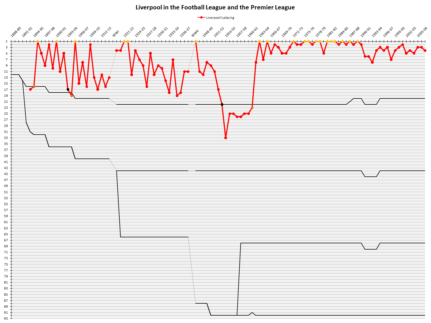 Liverpool F.C. league finishes in the Football/Premier league. Pale horizontal lines indicate boundaries between divisions. Broken lines represent the two World Wars.